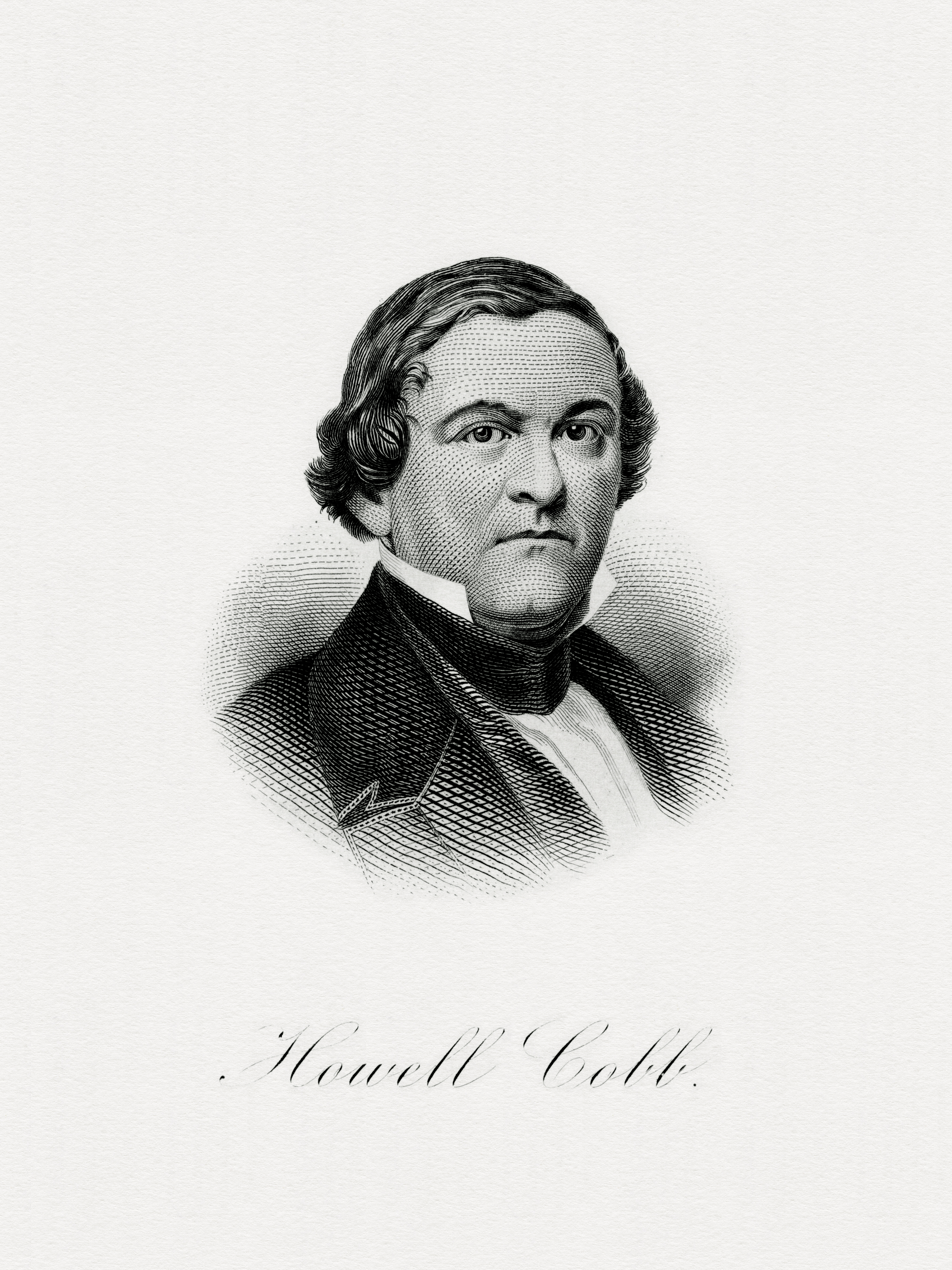 Engraved BEP portrait of U.S. Secretary of the Treasury Howell Cobb